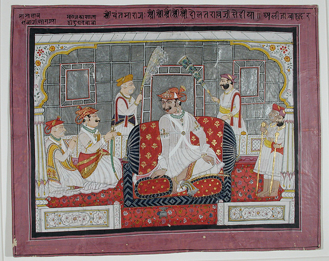 L to R; Sambhajirao Angre, Hindurao Ghorpade, & Daulatrao Shinde